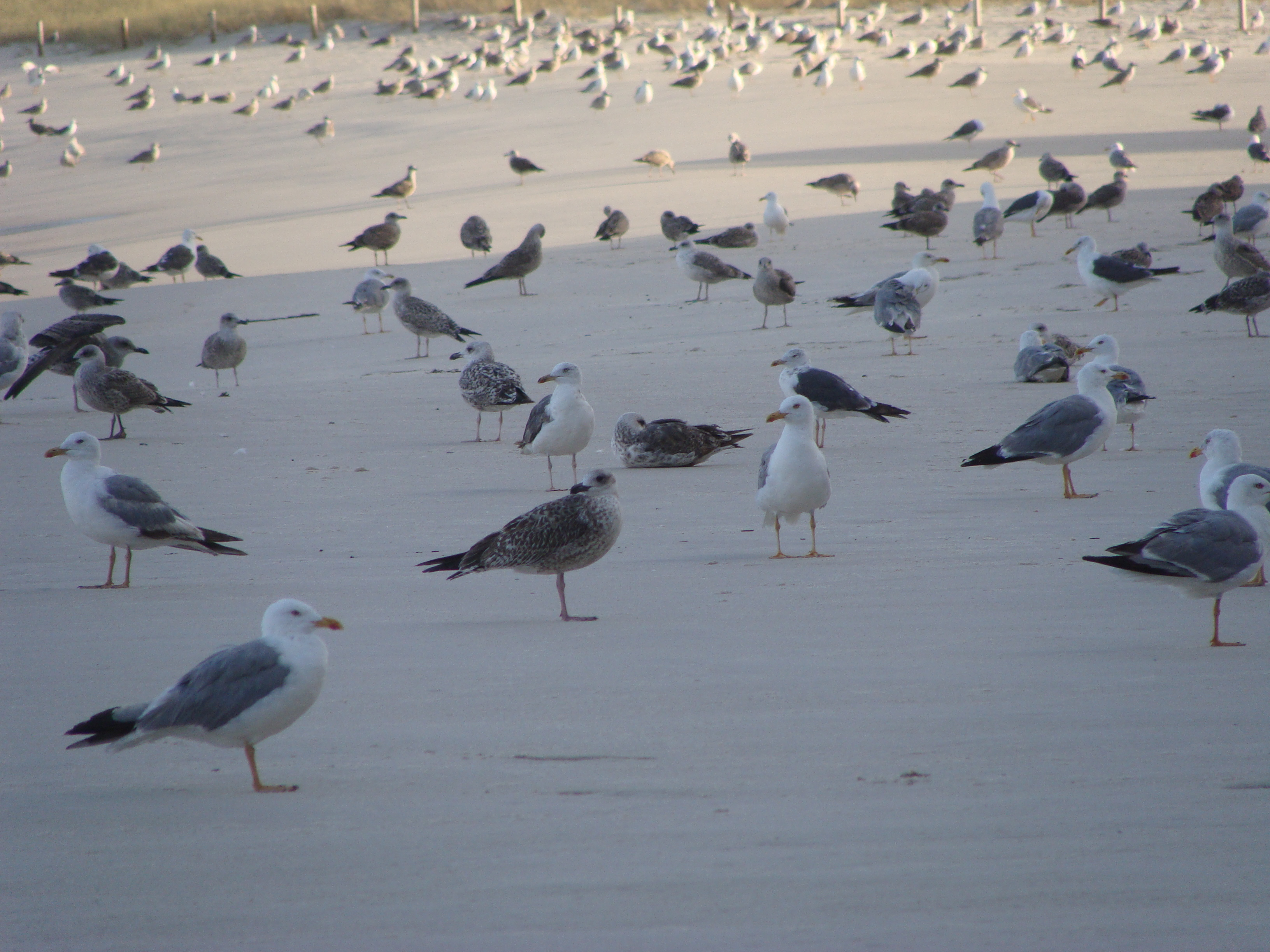 Larus michahellis (Yellow-legged Gulls) and Larus fuscus (Lesser Black-backed Gull) in Cíes Islands, Pontevedra, Galicia, Spain.